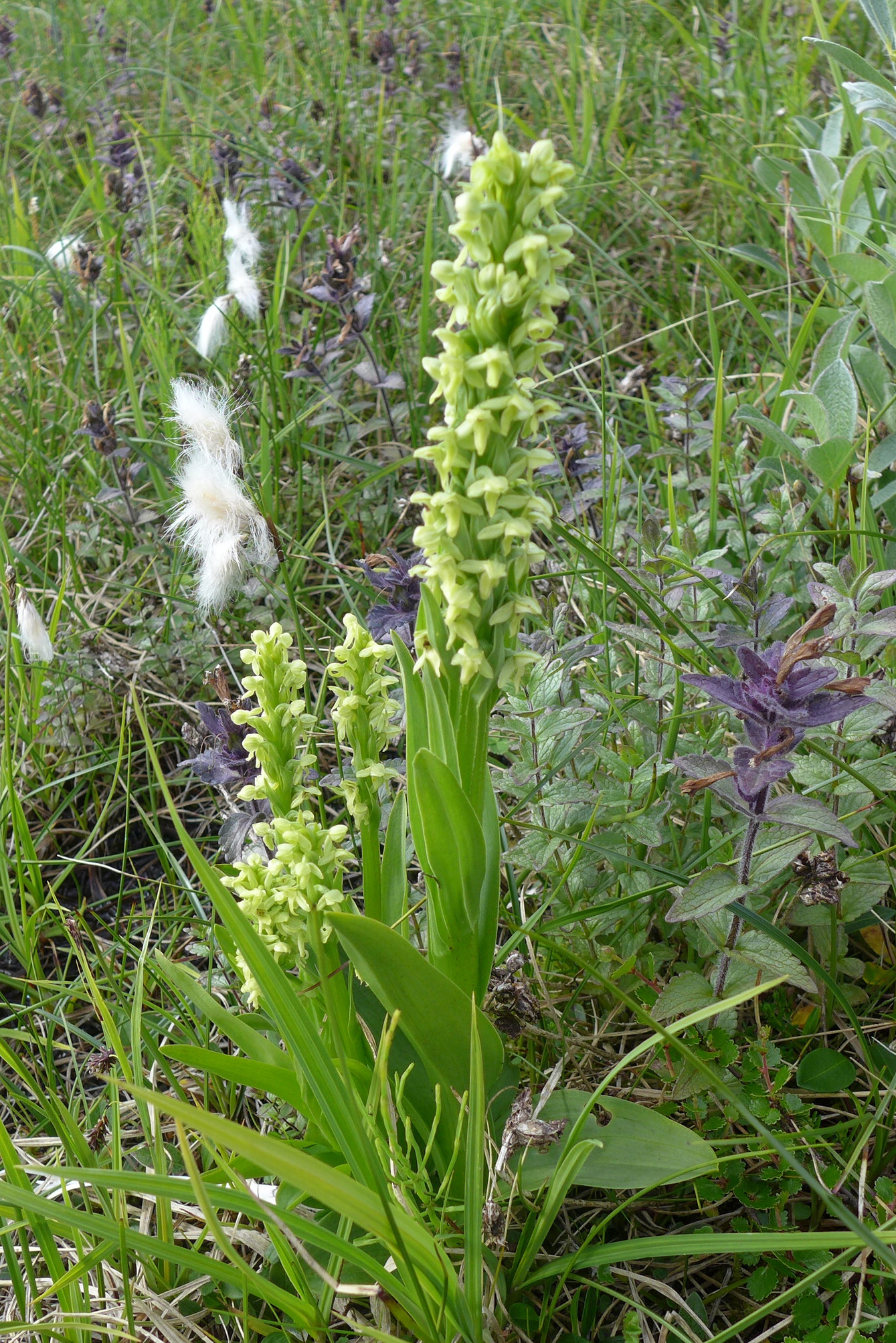 Platanthera flava var herbiola - northern tuberculed orchid - Hornstrandir, Iceland - Ísafjarðarbær, Vestfirðir, IS, Northwest Passage